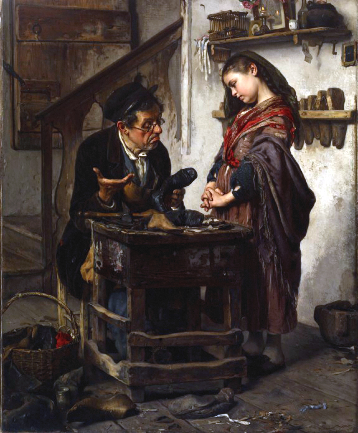 A young girl wearing a typical Venetian shawl listens stoically as the shoemaker reports upon the hopeless condition of her boot. The artist has depicted this cluttered interior with characteristic detail.